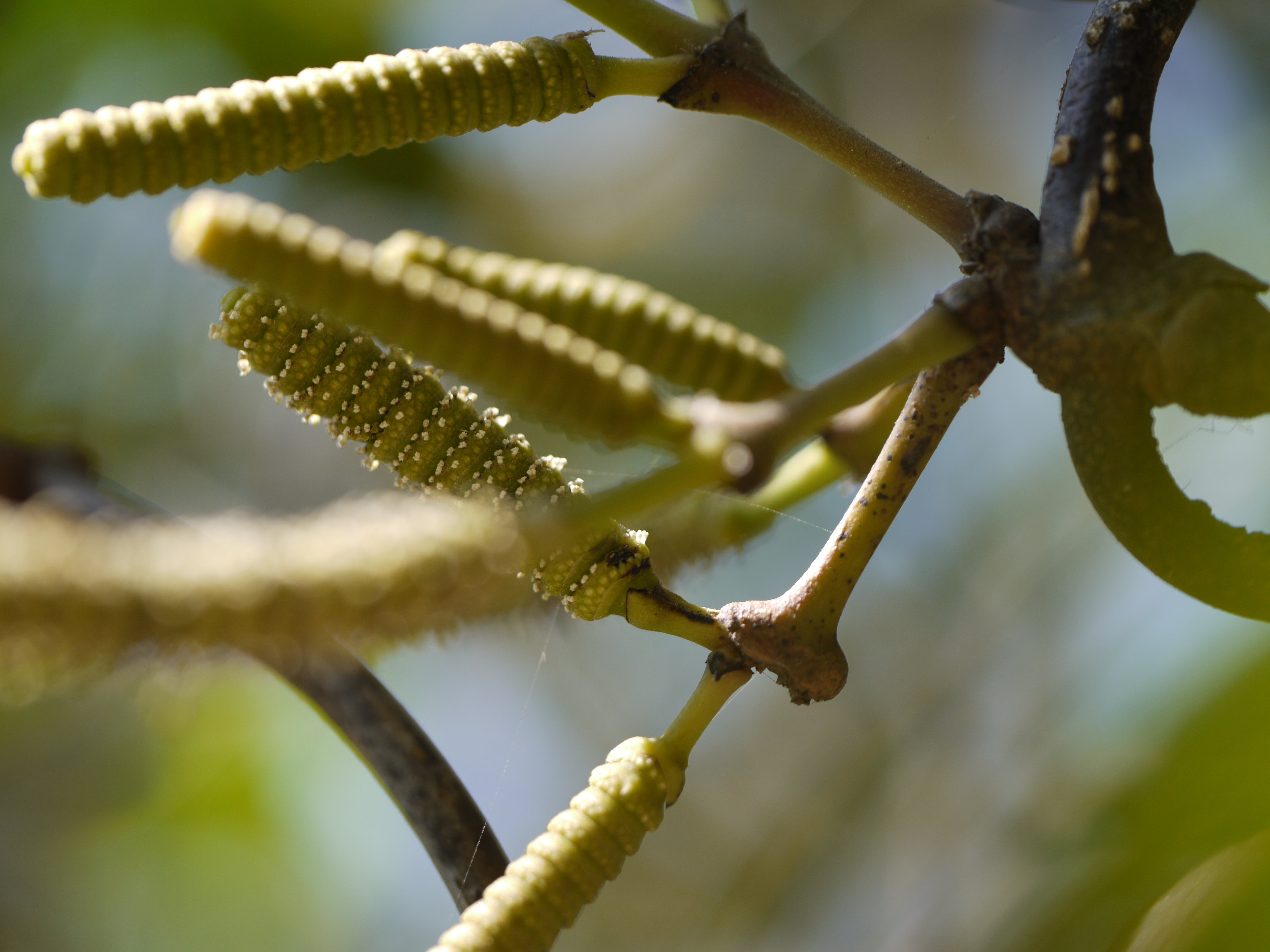 Gnetaceae (gnetum family) » Gnetum scandens NAY-tum -- from local name gnemon of the plant, Ternate island, Malay archipelago SKAN-dens -- climbing or sprawling commonly known as: monkey's bridge, joint fir • Kannada: ನವುರು ಕಟ್ಟೆ navuru katte, kodkamballi • Malayalam: കറുത്ത ഓടല്‍ karuththa ootal, oolan valli • Marathi: उंबळी umbli • Tamil: anapendu, peiodal • Telugu: apajuttili, kaloi, loluga tige, luliti Distribution: ¿ tropical regions of Africa and Asia ? References: Flowers of India • Forest Flora of Andhra Pradesh • ENVIS - FRLHT • Further Flowers of Sahyadri by Shrikant Ingalhalikar